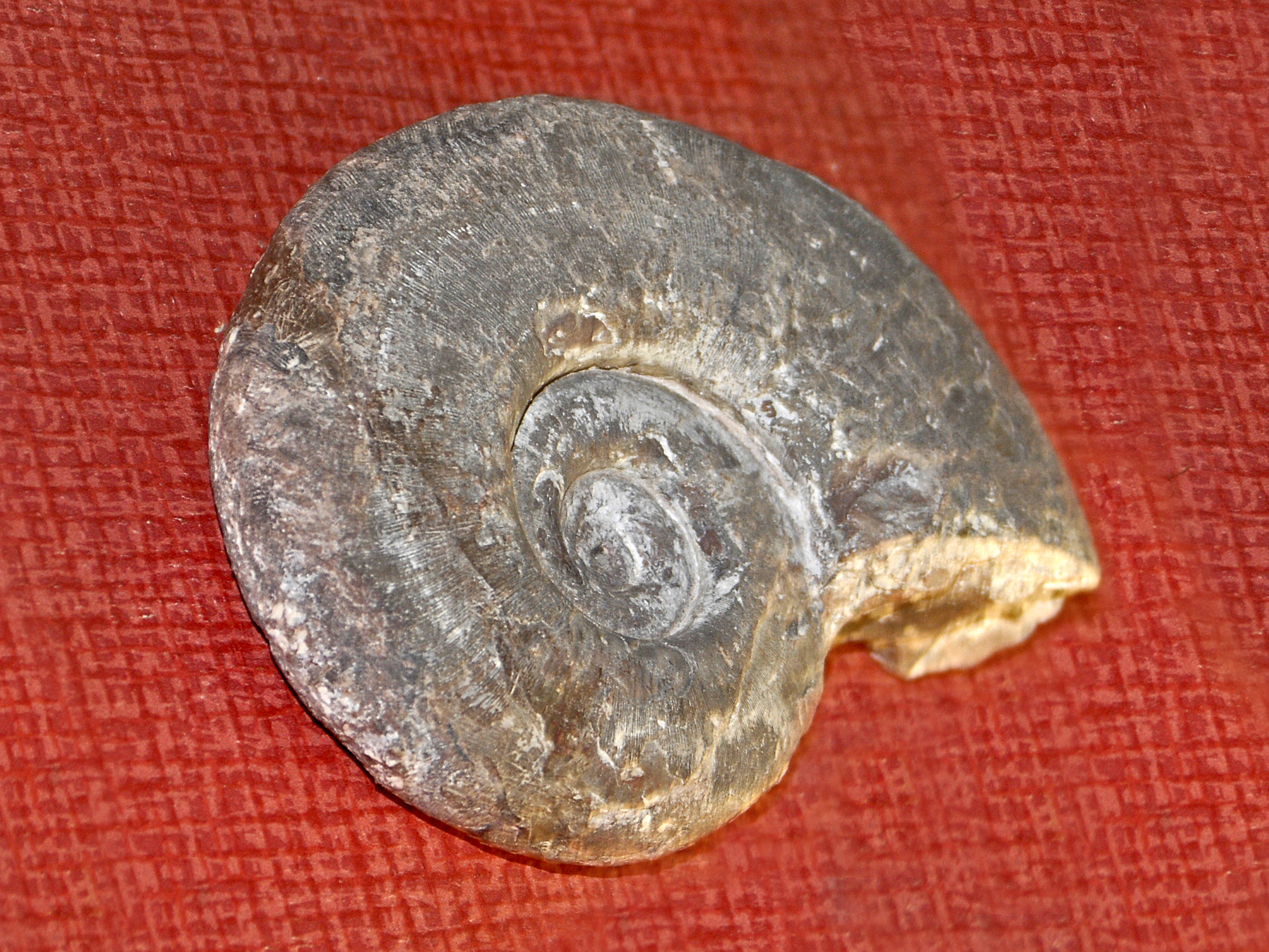 Fossil of Monophyllites sphaerophyllus from Bosnia, on display at Gallery of Paleontology and Comparative Anatomy, Paris.